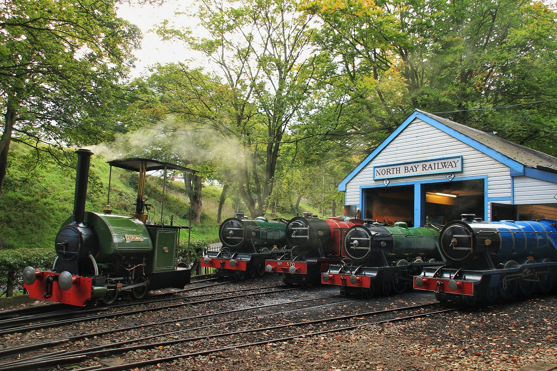 On the final day of regular running the North Bay Railway had all 5 of their engines in traffic, including their newest engine (Bagnall Sipat 0-4-0ST "Georgina").